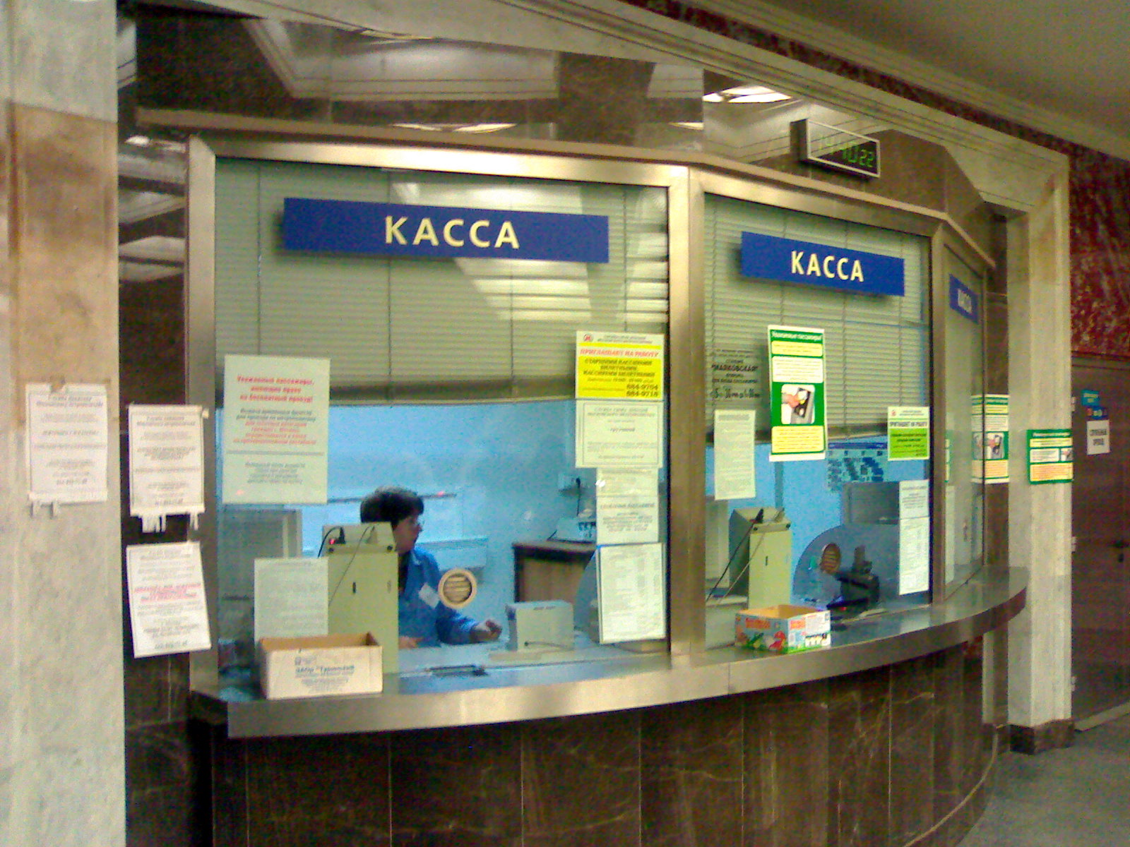 Majakovskaya metro station, Moscow. Ticket offices